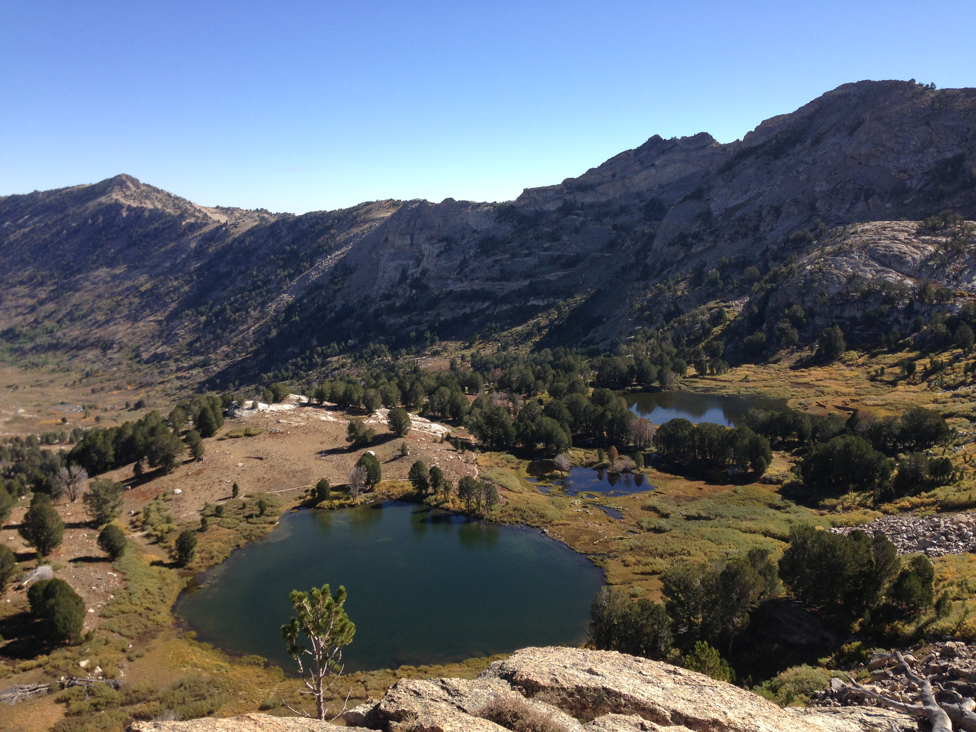 View northeast across the Dollar Lakes from a ledge near 10000 feet along the Ruby Crest National Recreation Trail in Lamoille Canyon on September 18th 2013